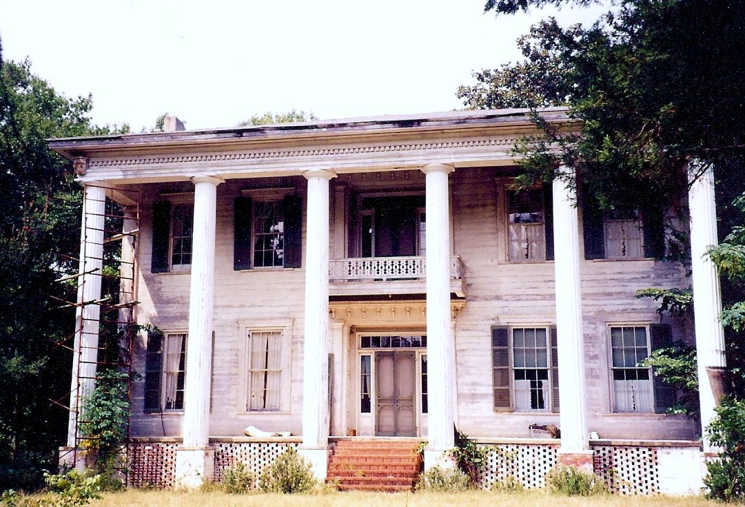 Belvoir, the Saffold Plantation, near Pleasant Hill, Dallas County, Alabama. The plantation was established by Reuben Saffold in 1825, the current main house is thought to have been built circa 1845-55. Though deteriorated in this photo, the house has since been restored.